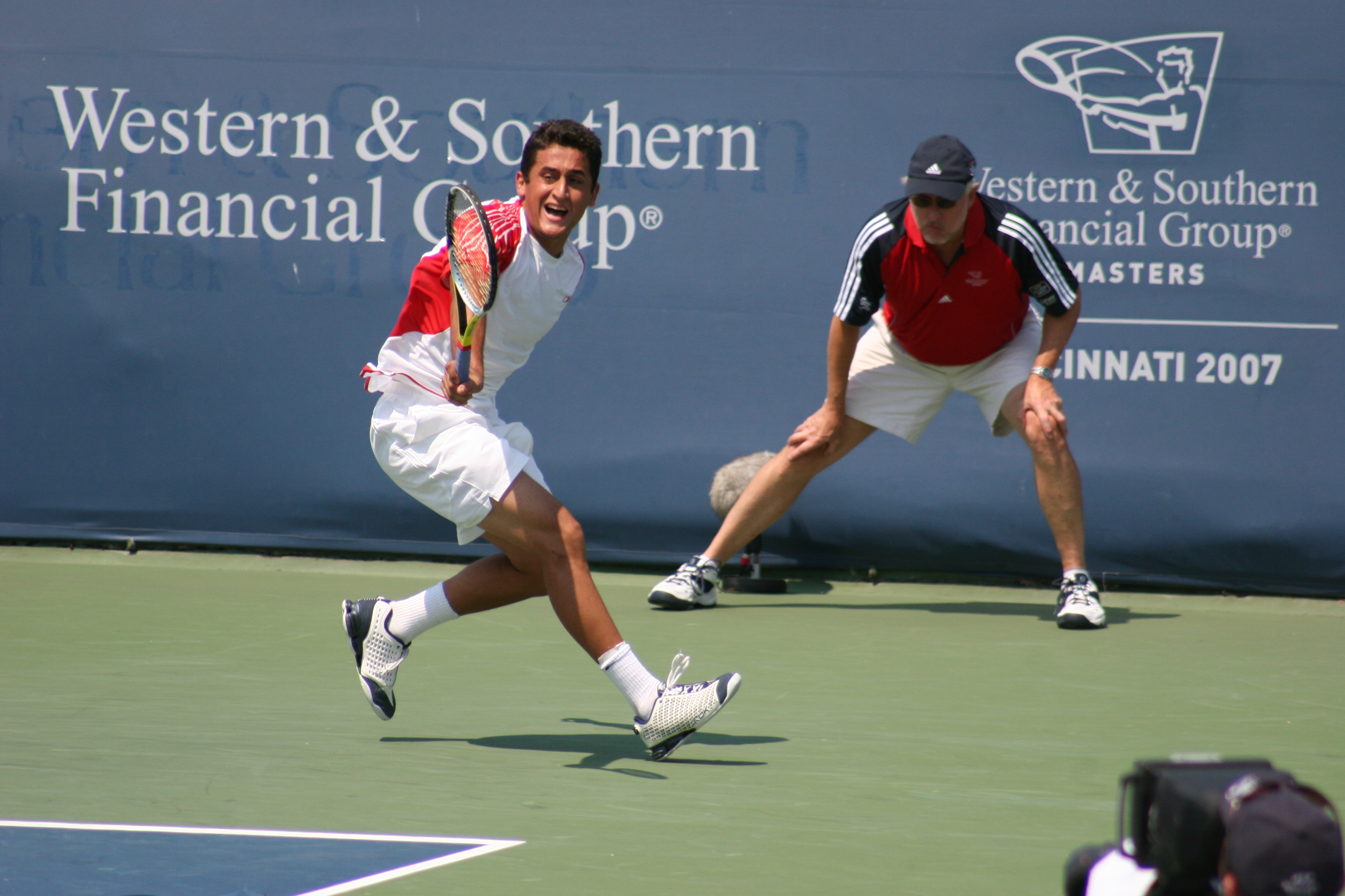 Nicolás Almagro in his quarterfinal match against Roger Federer at the 20007 Cincinnati Masters.